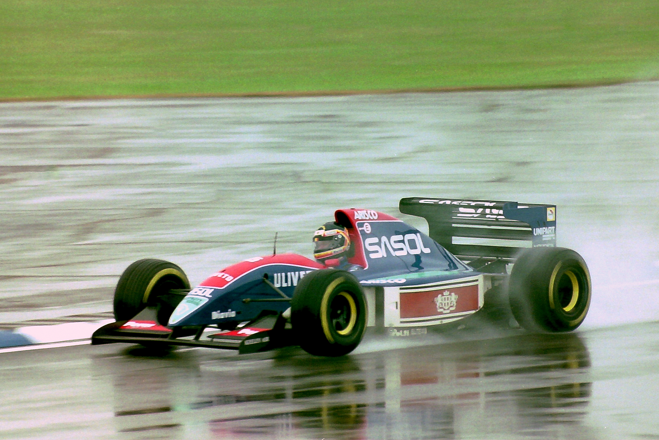 Thierry Boutsen - Jordan 193 during practice for the 1993 British Grand Prix